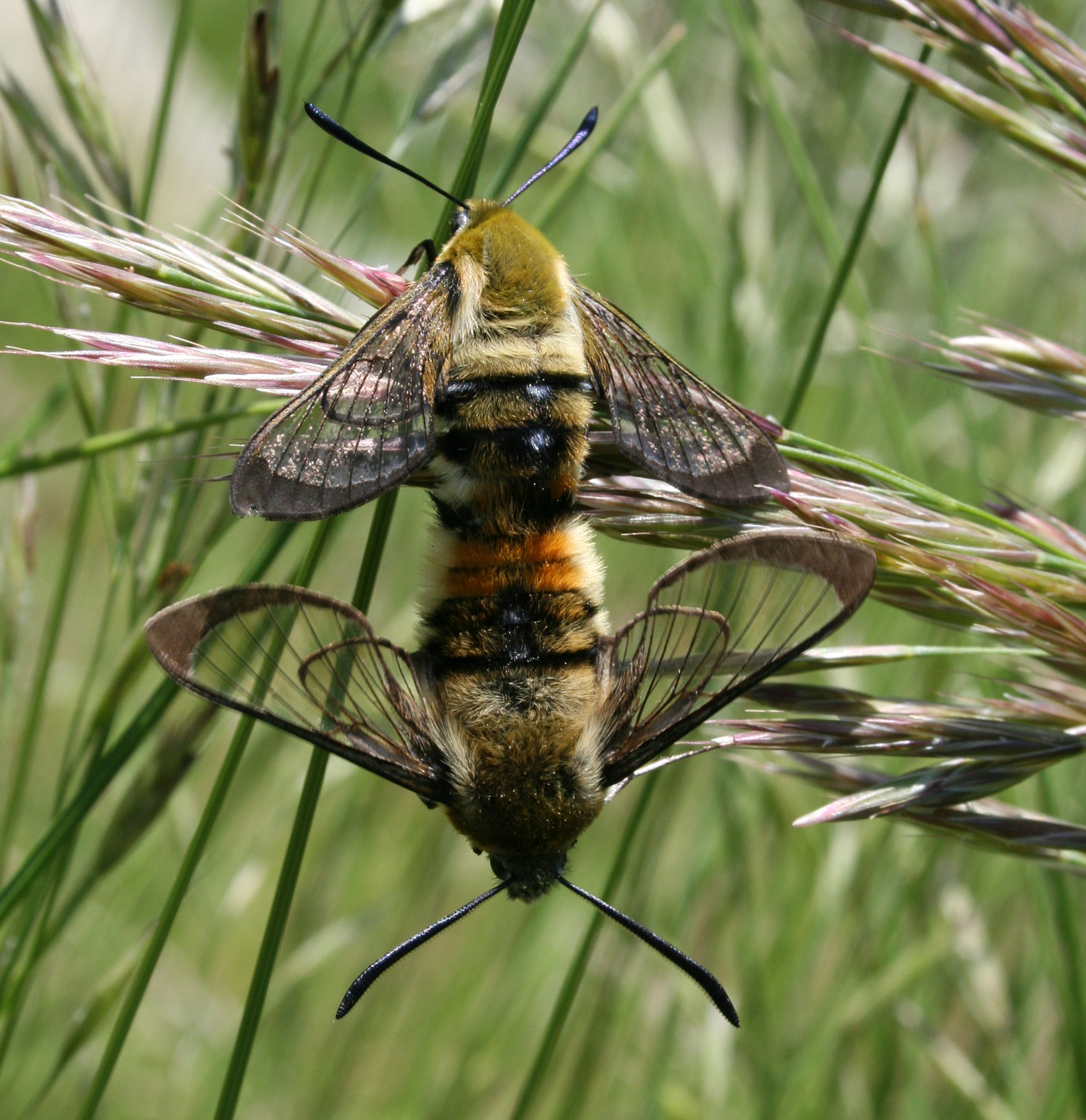 Hemaris tityus mating, Vaucluse, southern France